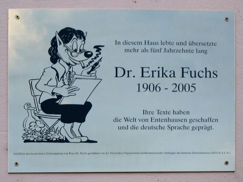 Commemorative plaque on the former residence of Erika Fuchs in Schwarzenbach an der Saale, Germany.